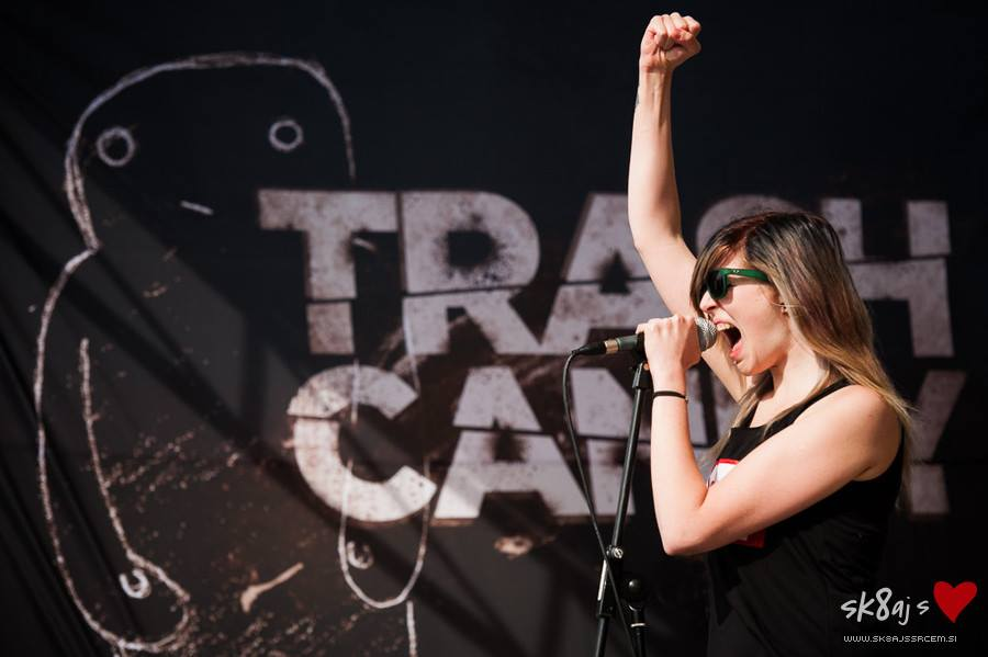 Pija Tušek - lead singer from Trash Candy, singing at Sk8aj s srcem - humanitarian tour